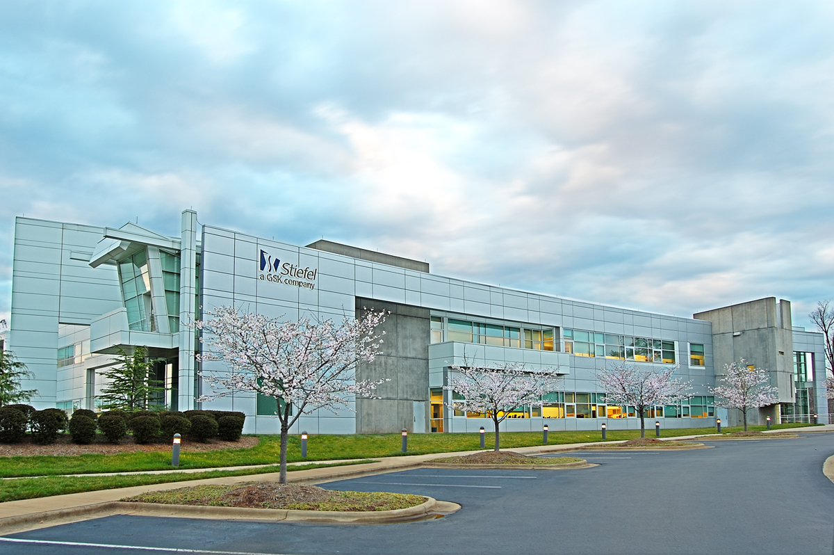 Stiefel Global Headquarters - Stiefel, a GSK company - American dermatological pharmaceutical company. Research Triangle Park, North Carolina 27709, USA